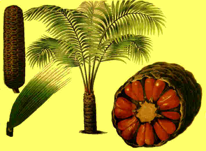 Zamia Roezlii, this original illustration of Zamia roezlii has been chosen as the neotype for the species.